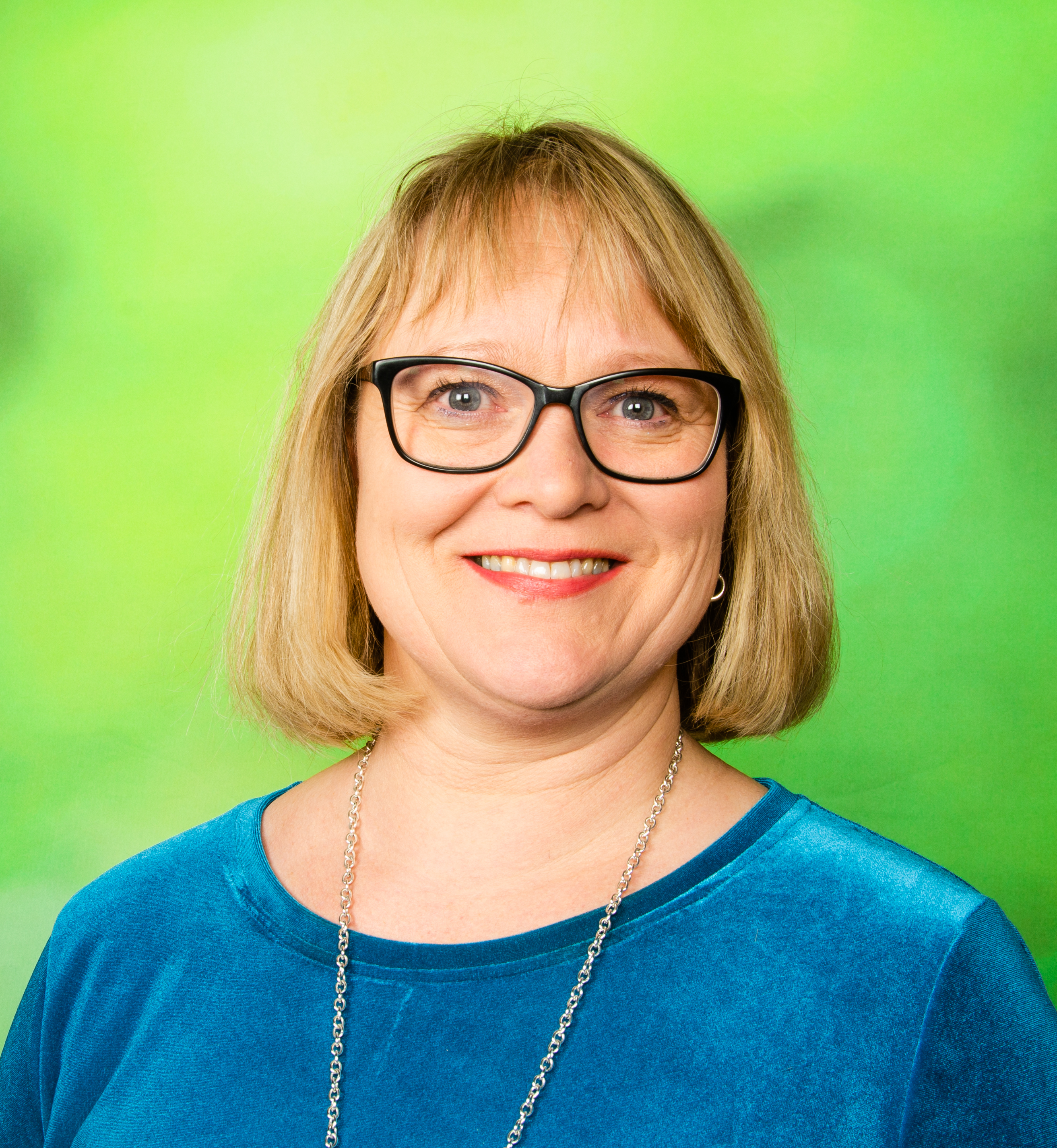 Depicted person: Lena M. Landsverk Sande – Norwegian politician